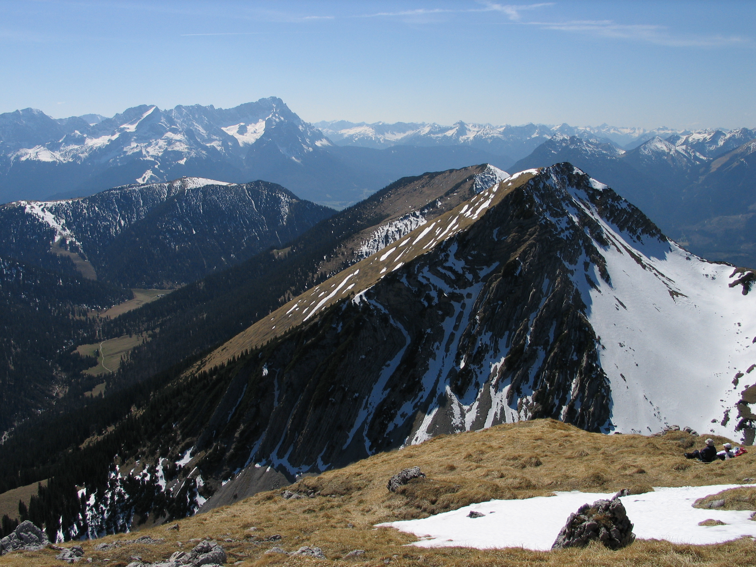 Bischof (2033 m) seen from Krottenkopf, Estergbirge